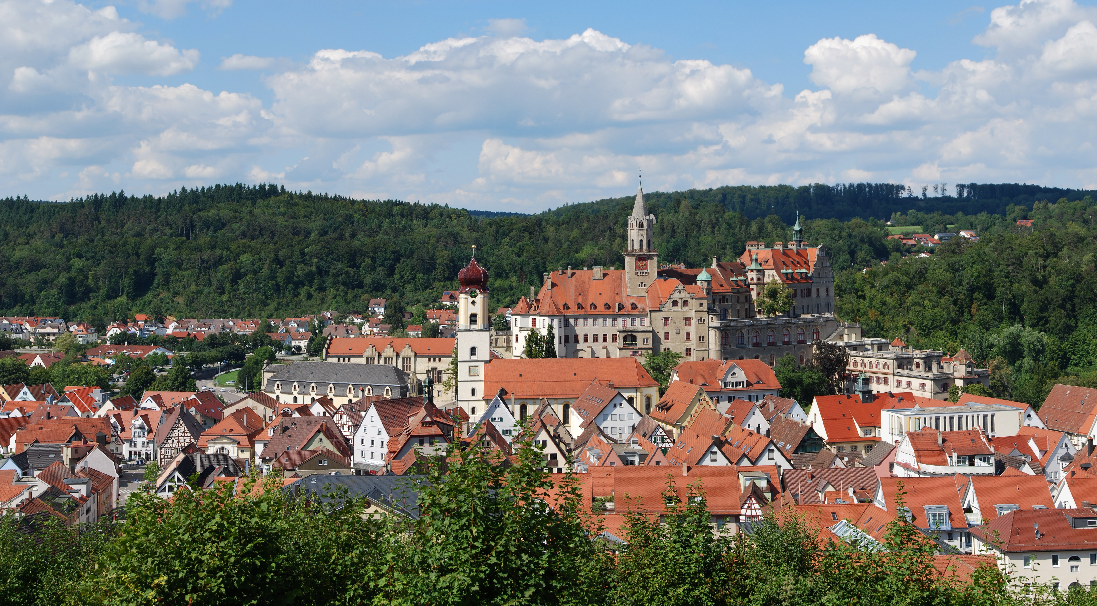 View over the town of Sigmaringen, Baden-Württemberg.